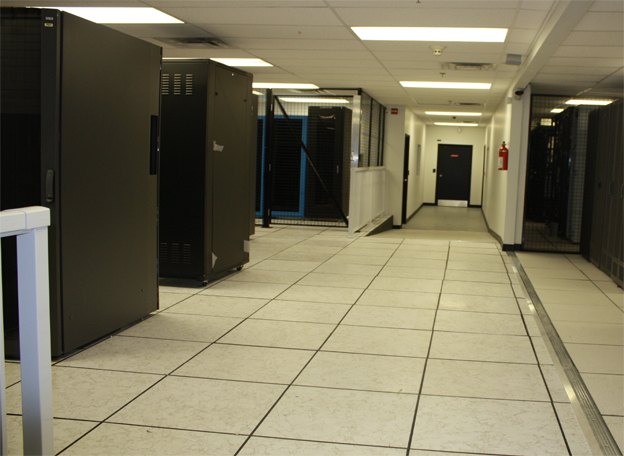 Data Centers Canada Toronto North data center facility